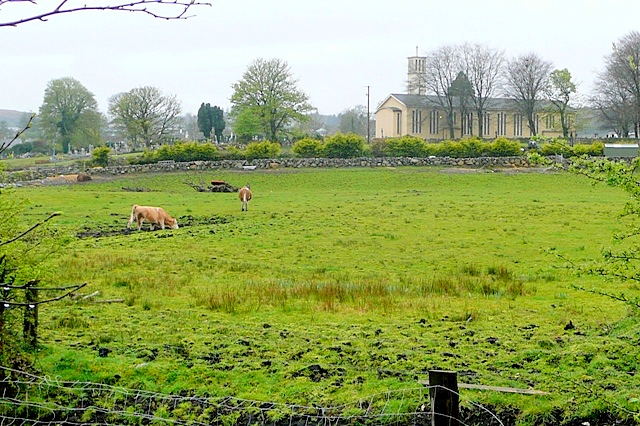 Maigh Cuillinn (Moycullen) The Church of Immaculate Conception is viewed across the cattle pasture to the north-east of the town. The church was dedicated on 8th December 1953. The parish website is here